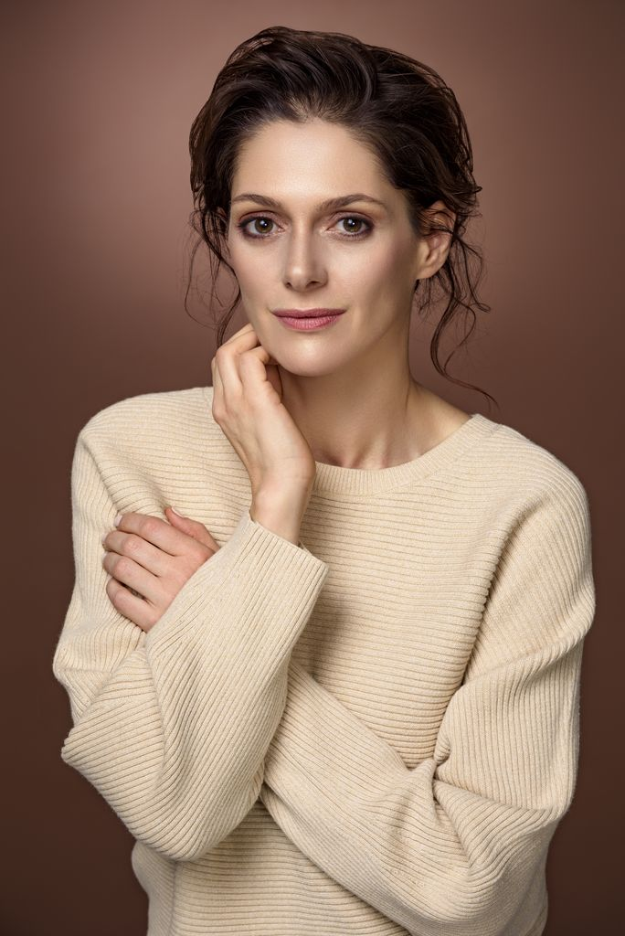 Portrait photo